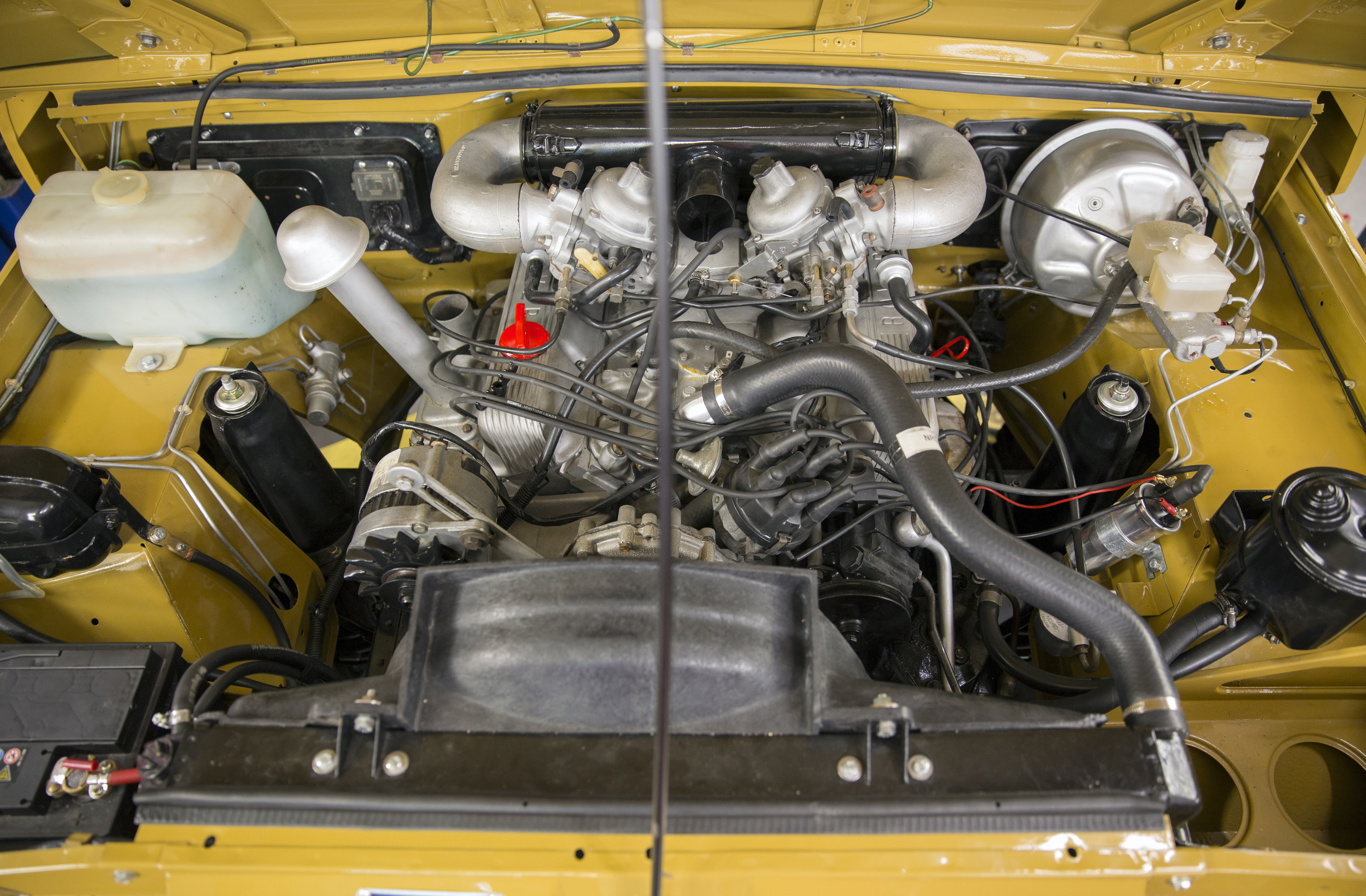 The 3528cc Rover V8 engine in a 1973 Range Rover at Autosports Designs in Huntington, NY (Long Island). Twin Solex carburettors, 135hp, four-speed early three-door suffix B car. This Bahama Yellow one left the line on 2 August 1973, and then delivered to British Leyland, France on 27 August. Sold for $57K in January 2018 by Bonhams at Scottsdale